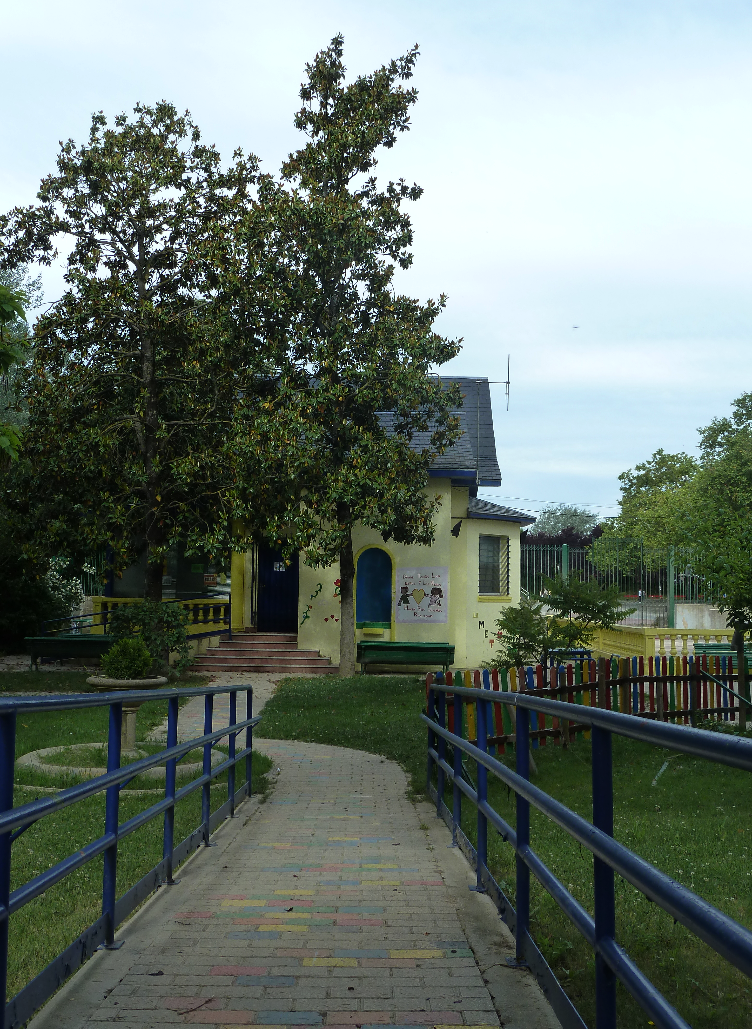 Sanduzelai auzoan dagoen garai bateko txalet hau Iruñeko Udalarena da. Gizarte ekimenetarako auzo zentro gisan erabiltzen da. Auzo Unitatearen bitartez, Udalak lokala uzten du auzo elkarteek eta erakundeek erabil dezaten. Gaur egun Zandua Etxea du izena.